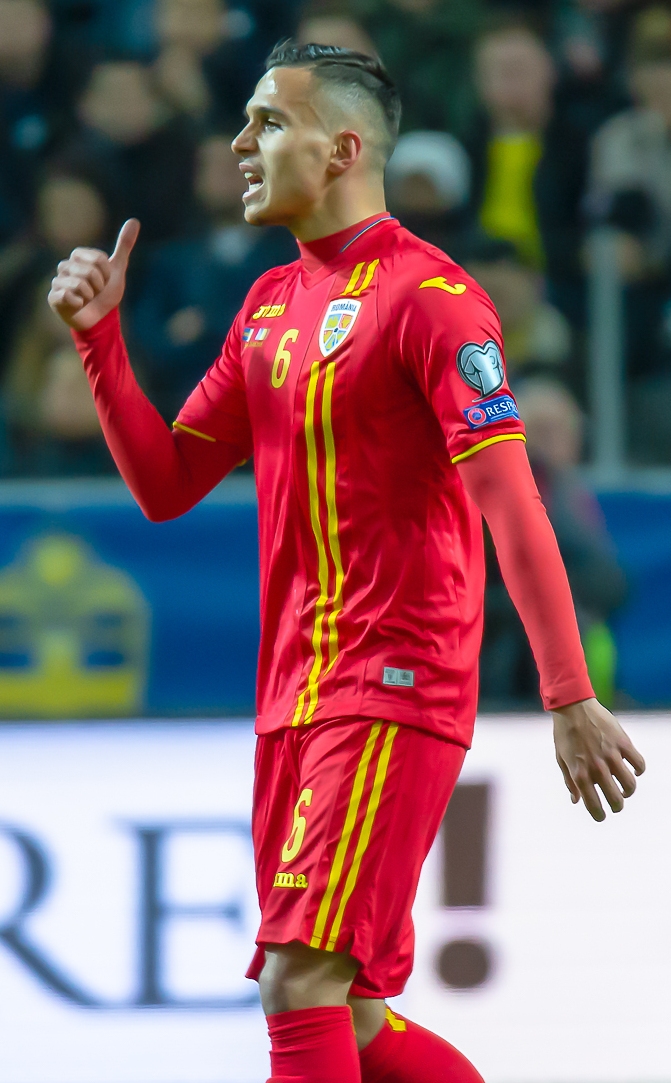 UEFA EURO qualifiers Sweden vs Romaina 20190323